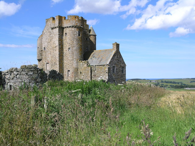 Inchdrewer Castle Inchdrewer Castle stands on high ground looking out over Banff to the North Sea. It is a fine house, now fallen on sad days. Like most Scottish castles, it has seen its share of incidents! Lord Banff was murdered here by his own servants (probably having earned it!), who in an attempt to hide their crime, torched the castle. It remained a ruin for a long time but has undergone some half-hearted restoration.